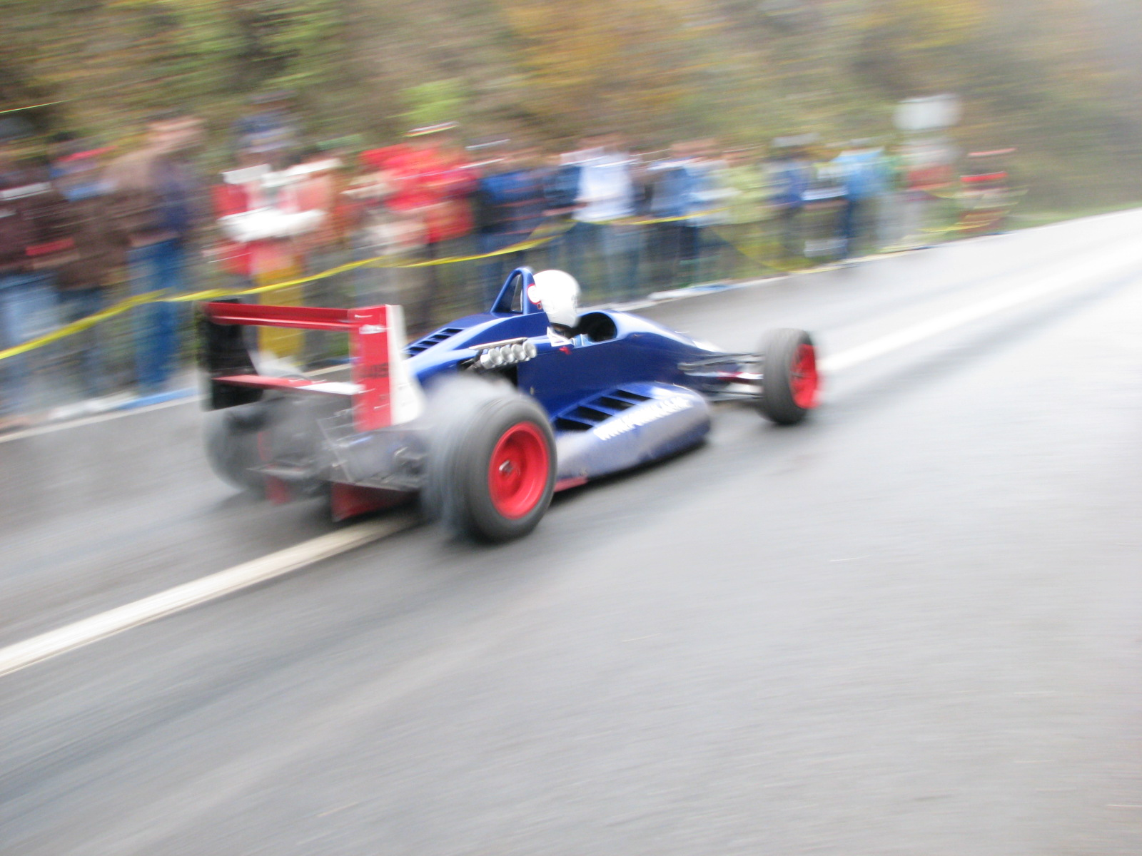 Hillclimb at Resita